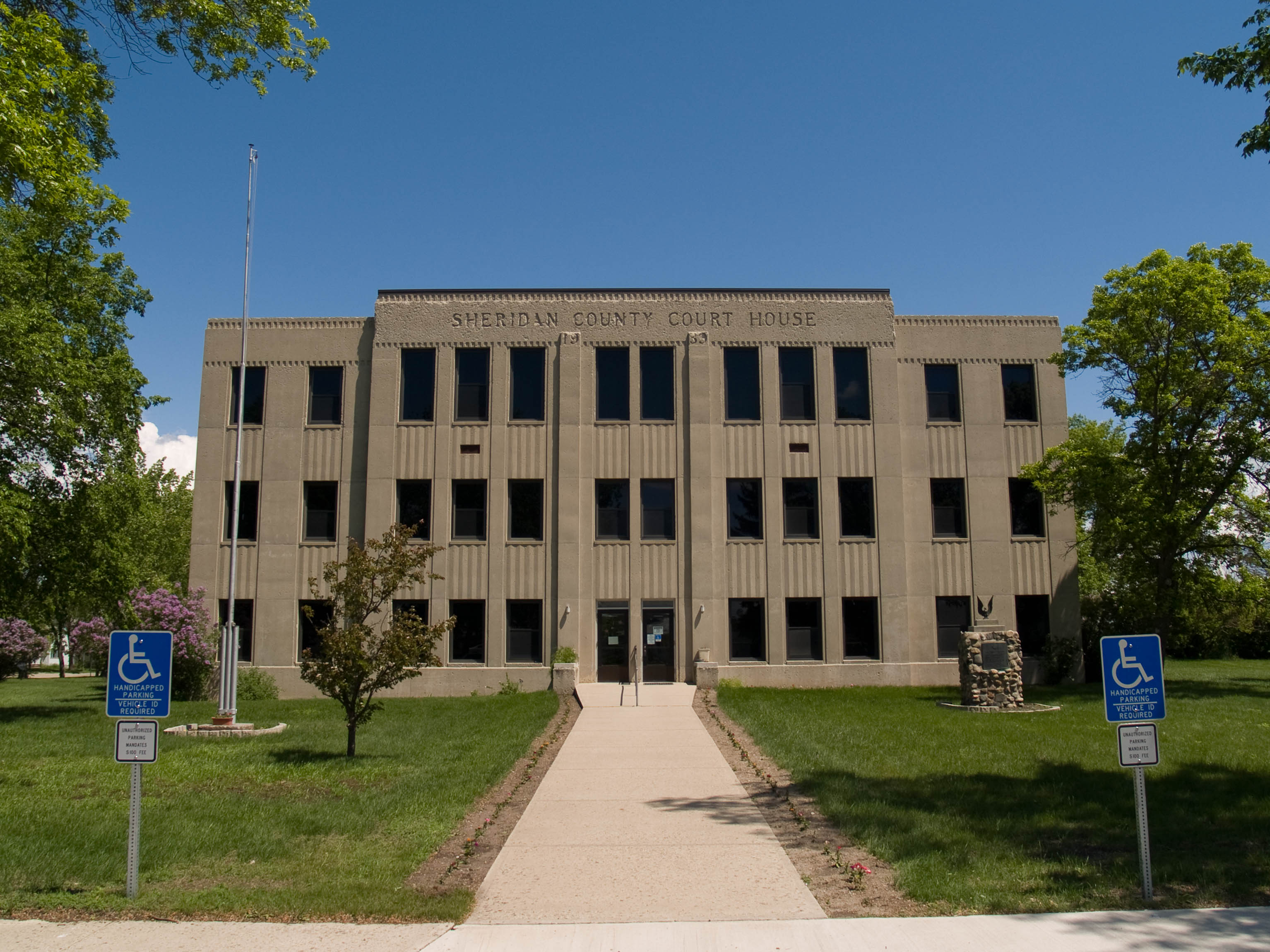 Sheridan County Courthouse in McClusky, North Dakota, listed on the National Register of Historic Places. From